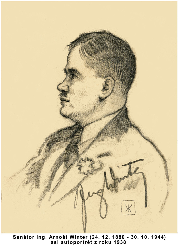 Senátor Ing. Arnošt Winter (24. 12. 1880 - 30. 10. 1944) asi v roce 1938, asi autoportrét